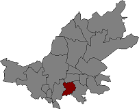 Location of Nulles in Alt Camp